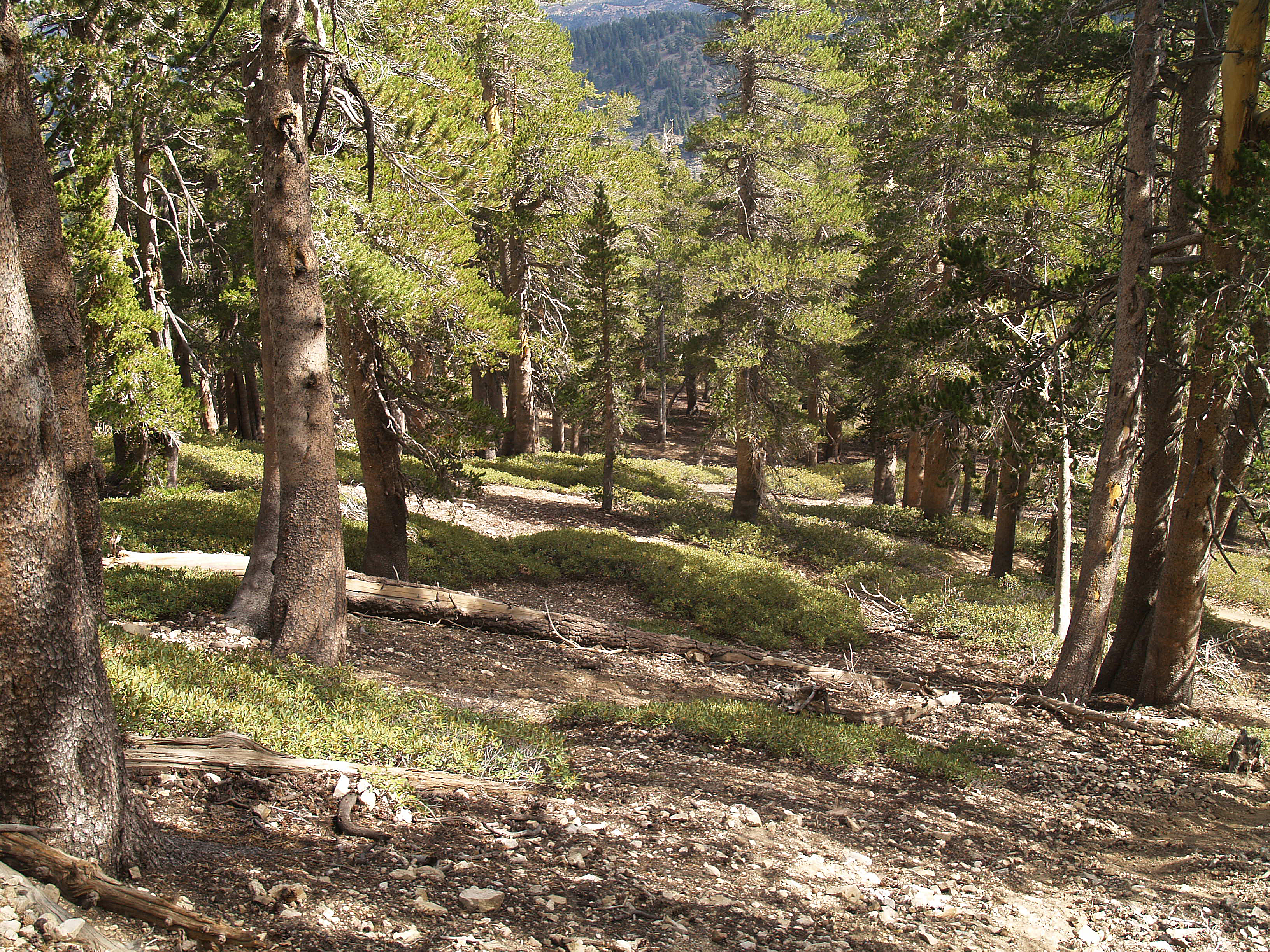 Pinus contorta subsp. murrayana forest, Mount Baden-Powell, within the Angeles National Forest. In the San Gabriel Mountains, Southern California.